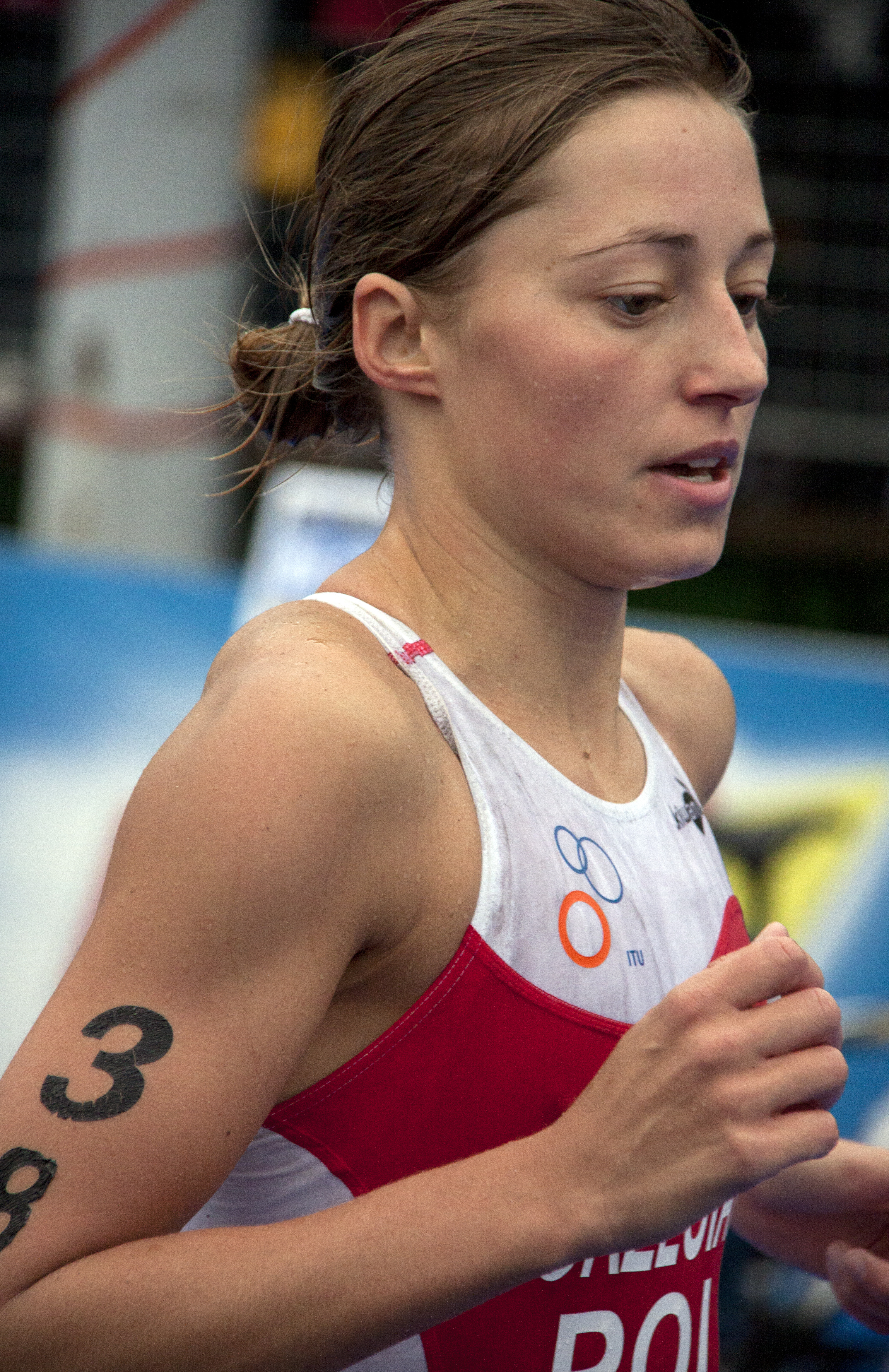 Anna Grzesiak at the World Championship Series triathlon in Budapest, Grand Final, U23 Championships.